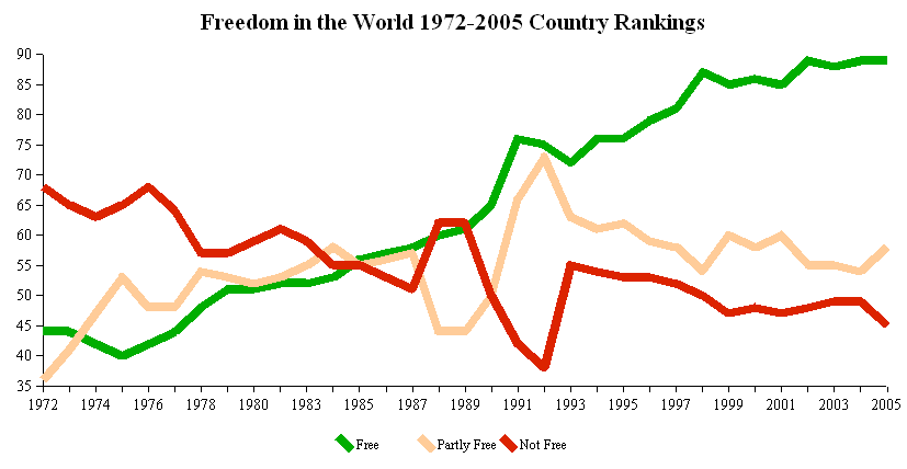 Freedom_House. This graph shows the number of nations in the different categories given above for the period for which there are surveys, 1972-2005